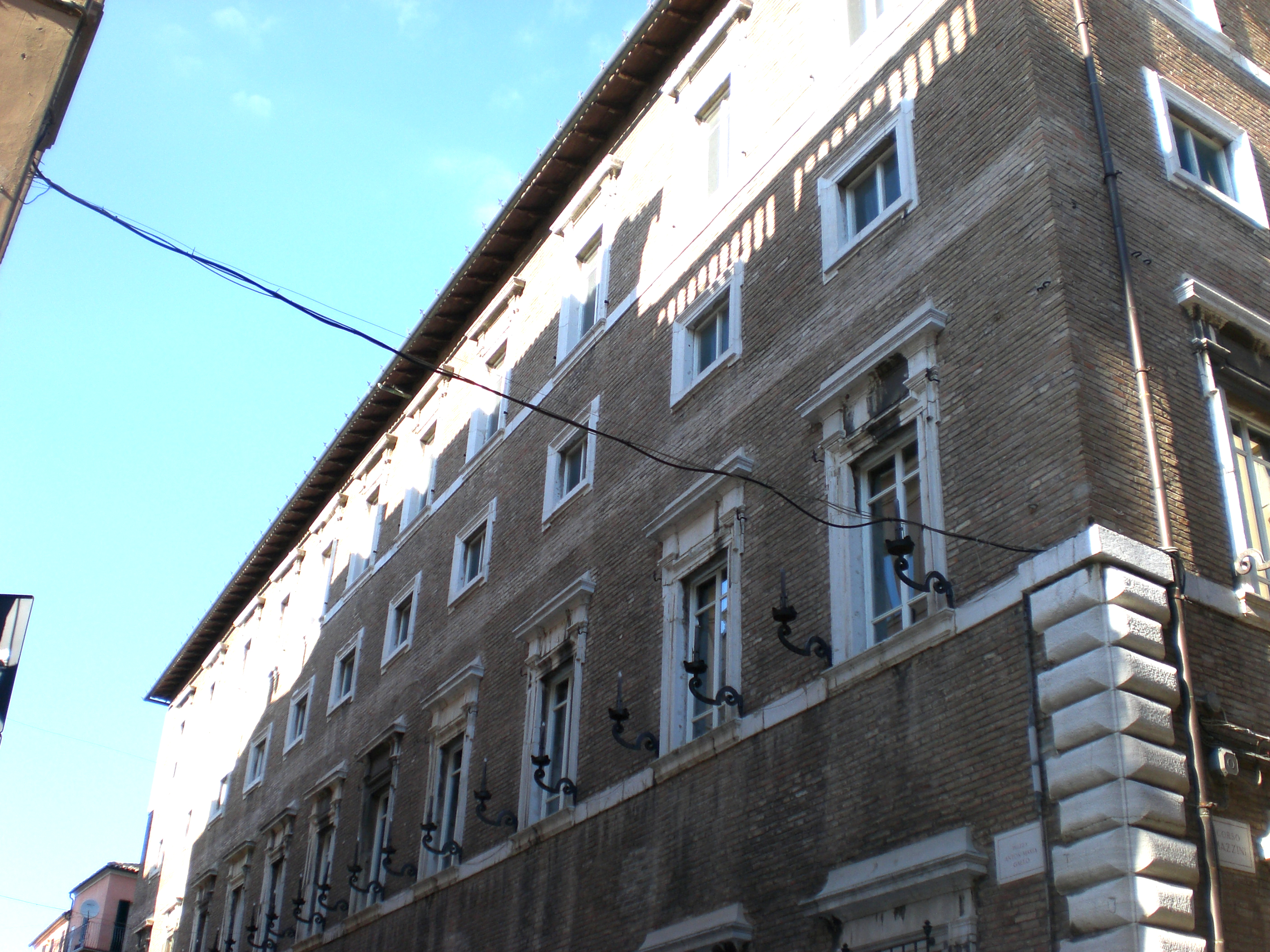 Osimo, Gallo Palace